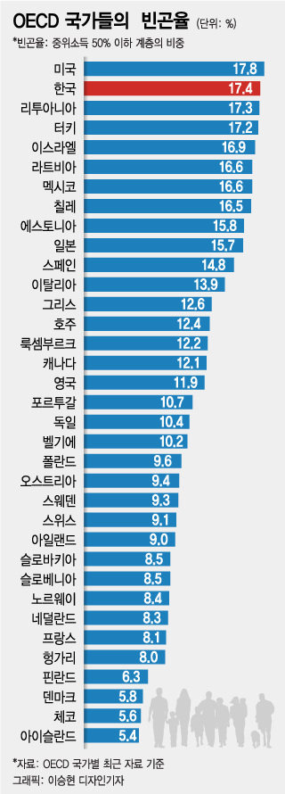 ㅇ